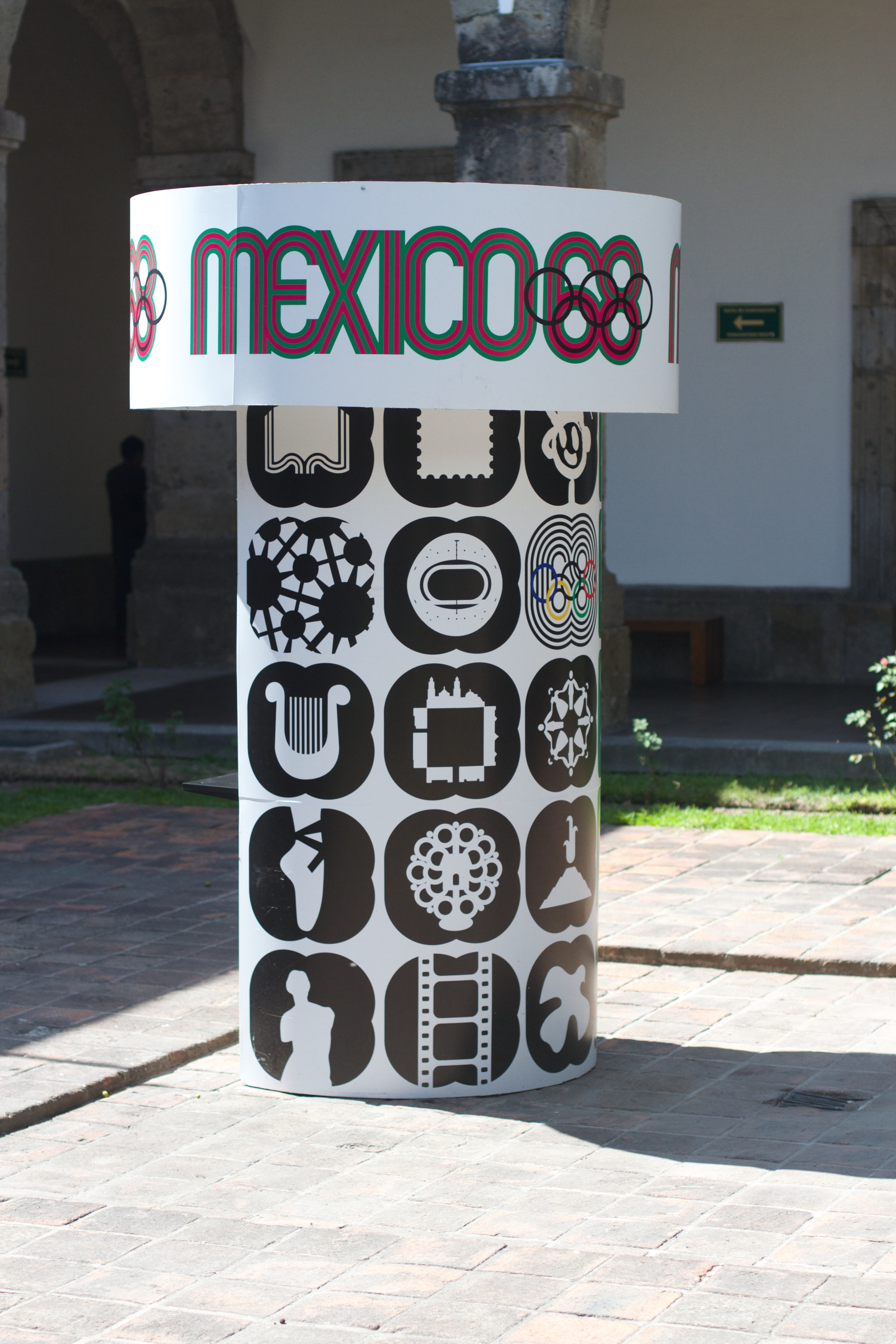 Part of the exhibit at Instituto Cultural Cabañas covering the work of architect Pedro Ramírez Vázques